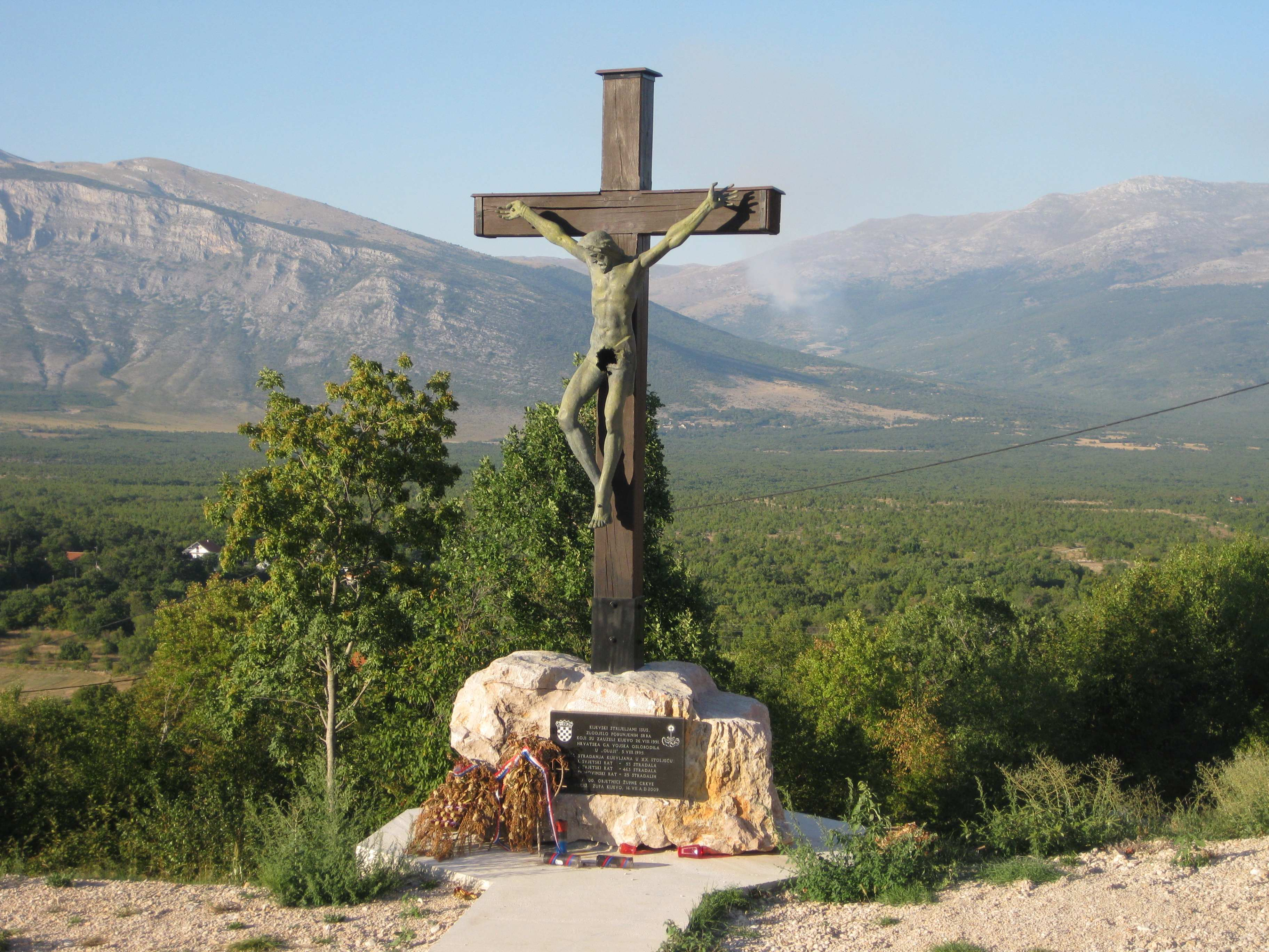 Crucifix in Kijevo,damaged by Serb troops in Croatian Homeland war